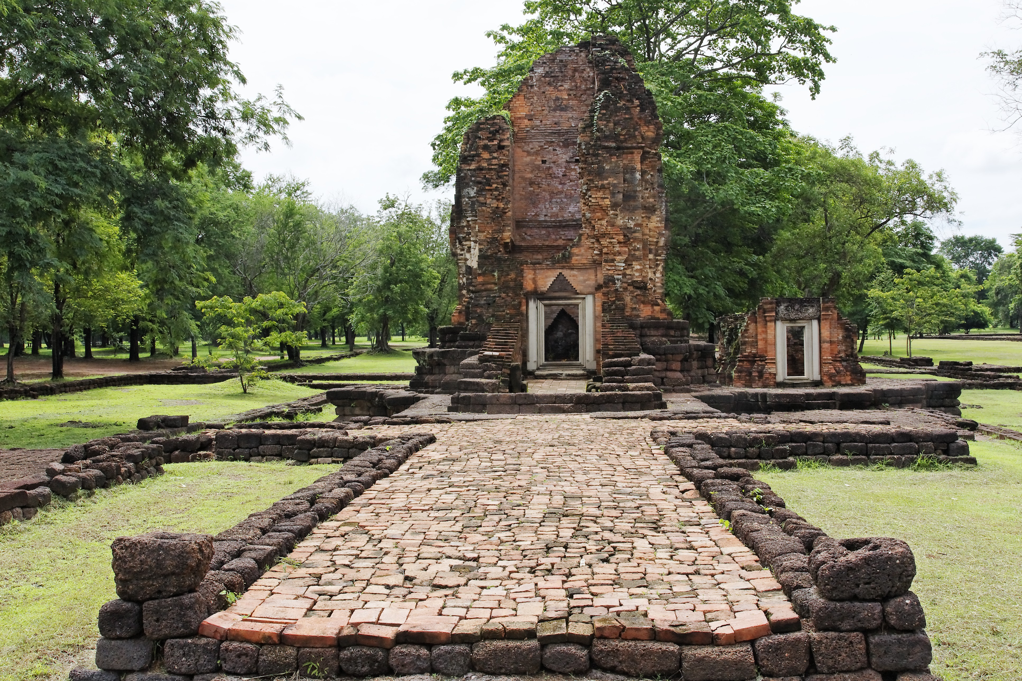 Prang Song Phi Nong, Si Thep Historical Park, Si Thep District, Phetchabun Province, Thailand